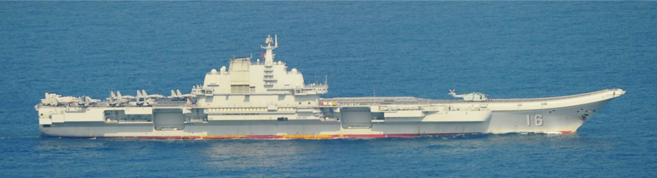 The Chinese aircraft carrier Liaoning in the Southwestern Pacific near Taiwan island, on April 20, 2018.